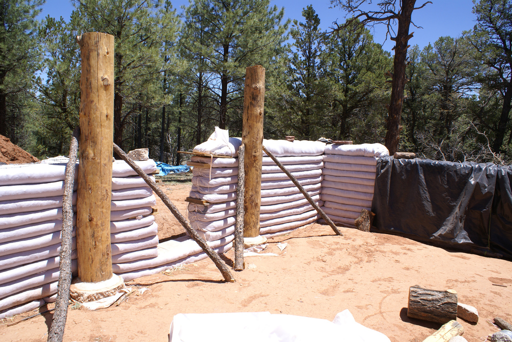 Super Adobe construction pioneered by Nader Khalili of Cal-Earth